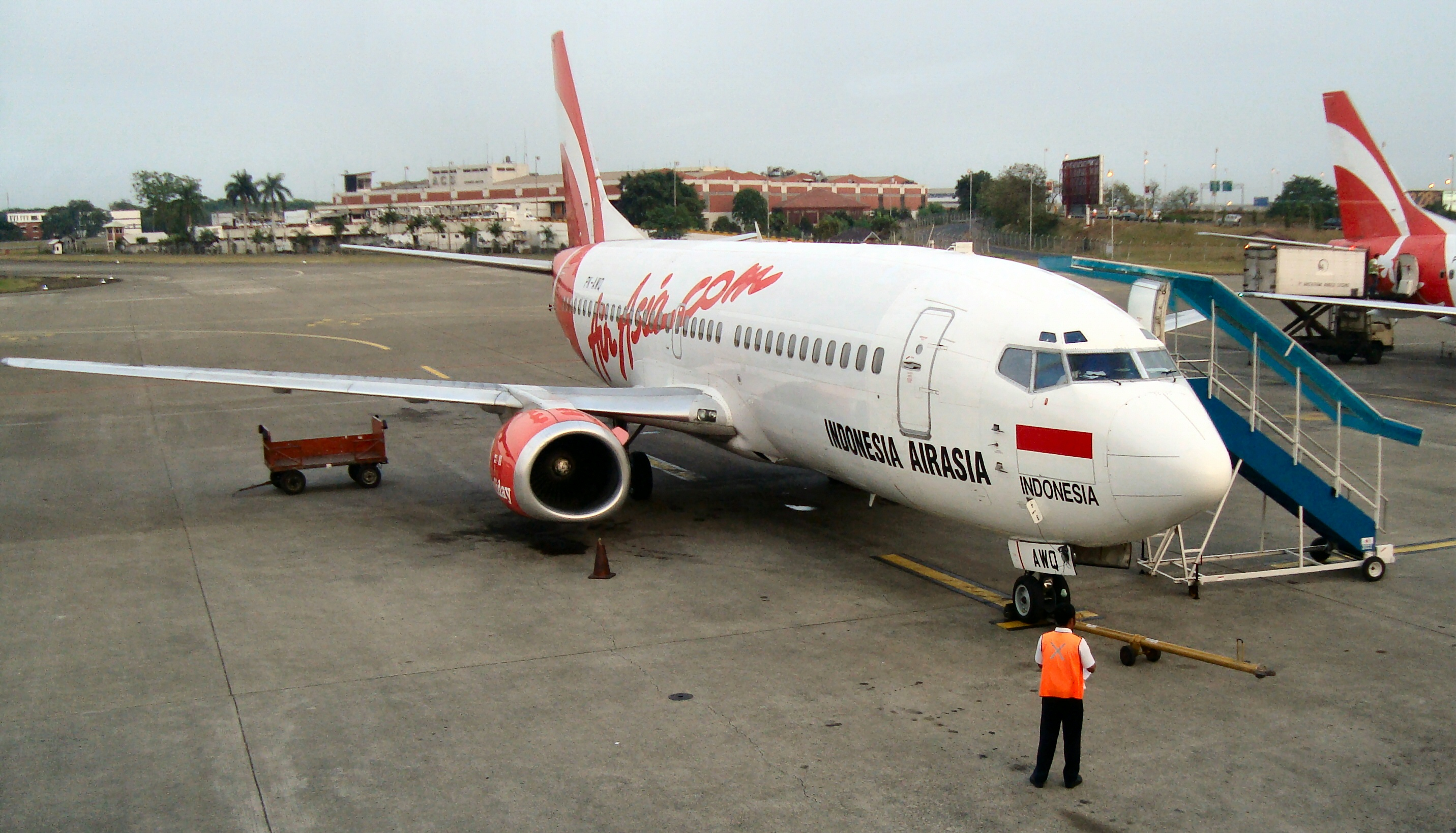 Indonesia Airasia - Boeing 737-3B7 - Registration PK-AWQ